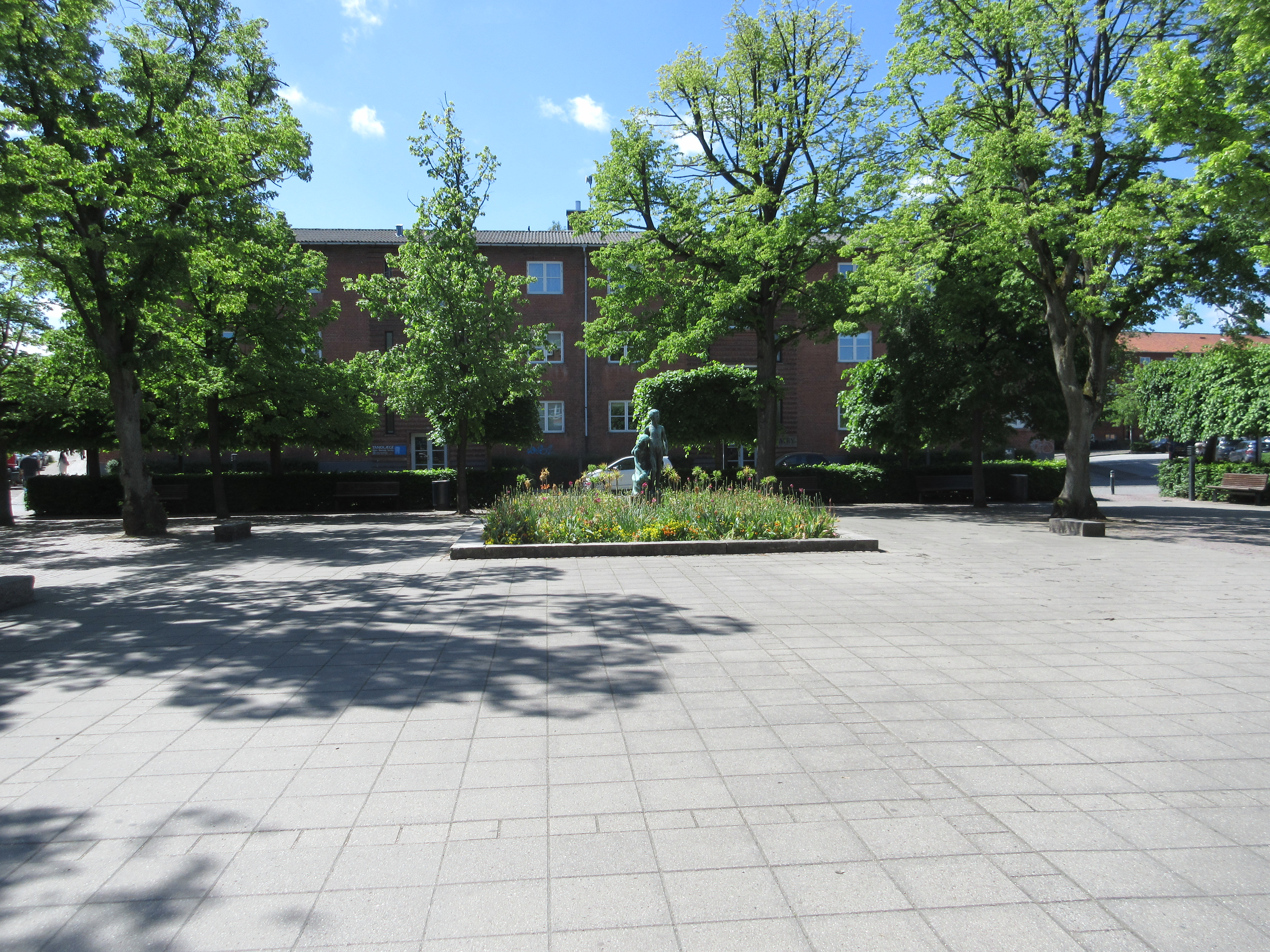 Ulrikkenborg Plads in Lyngby, Denmark